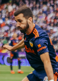 Real Valladolid - Valencia C. F., 38th fixture of the 2018-19 La Liga, May 18, 2019.